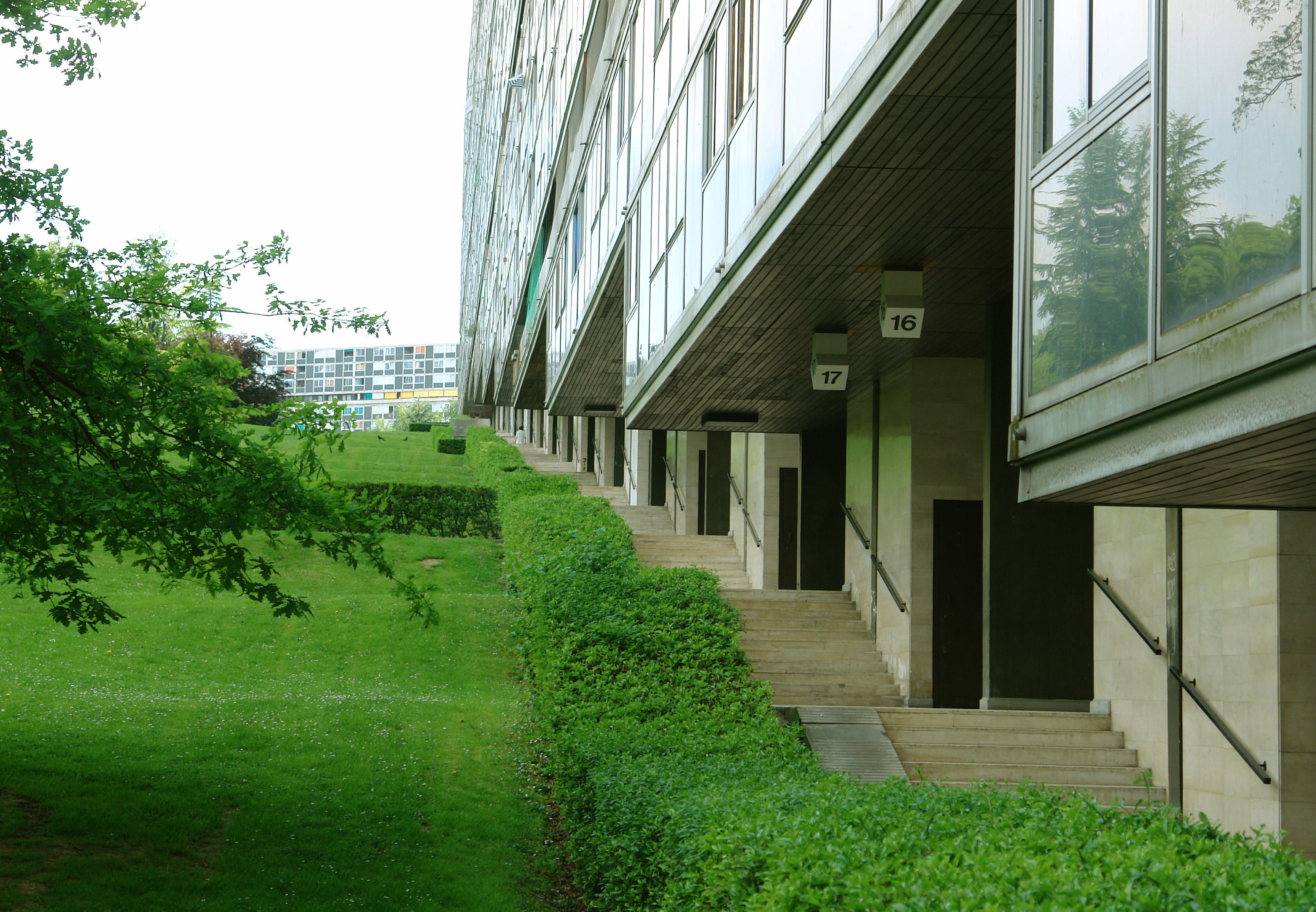 Cité du Lignon, large residential estate, Aire, 1962-71 in Geneva Switzerland, Architect: Georges Addor, Stepping of storeys, multiple entrances